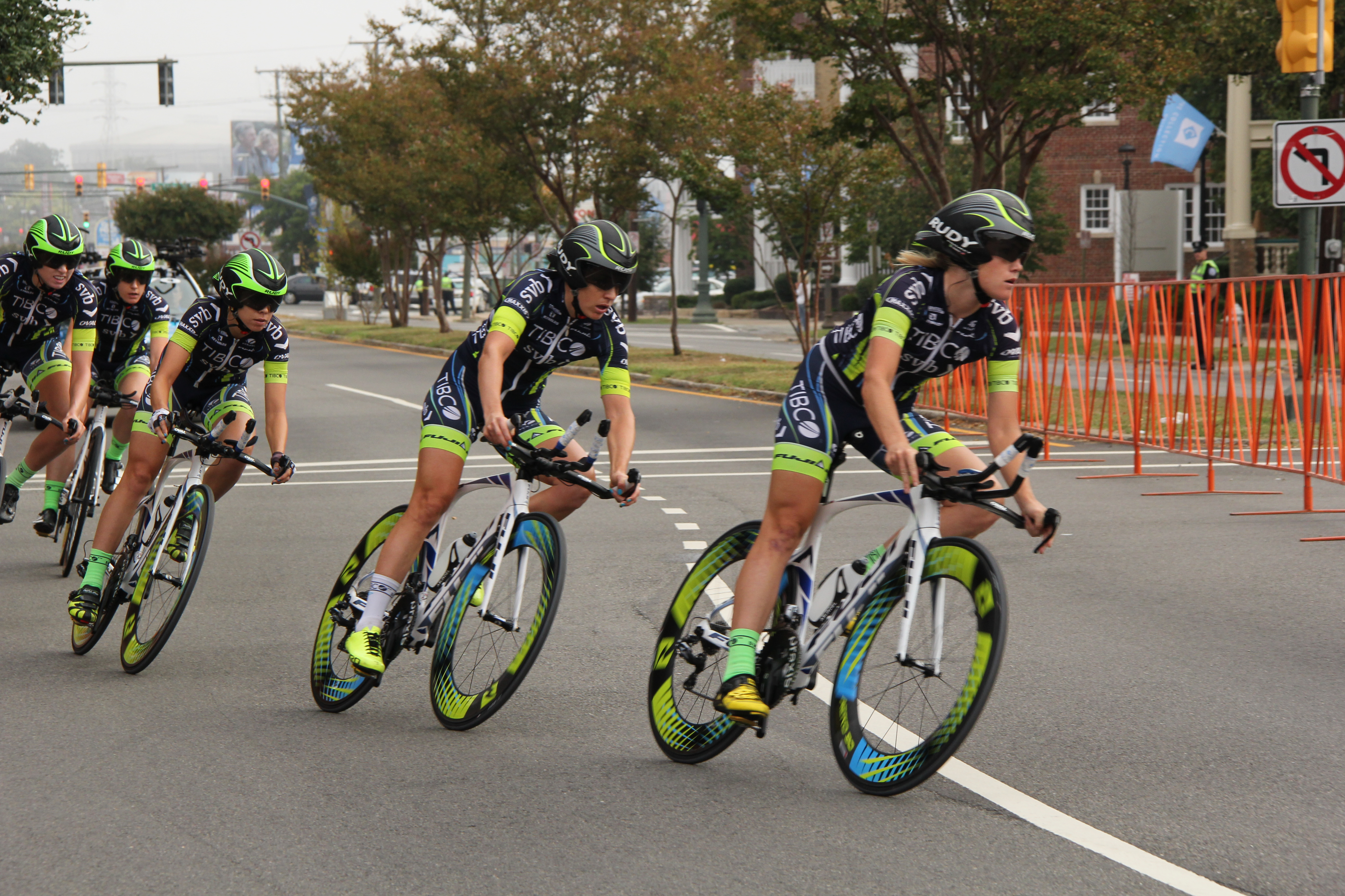 The world has come to Richmond. Welcome! Bienvenidos! Willkommen! 2015 UCI Road World Championships, in Richmond, United States